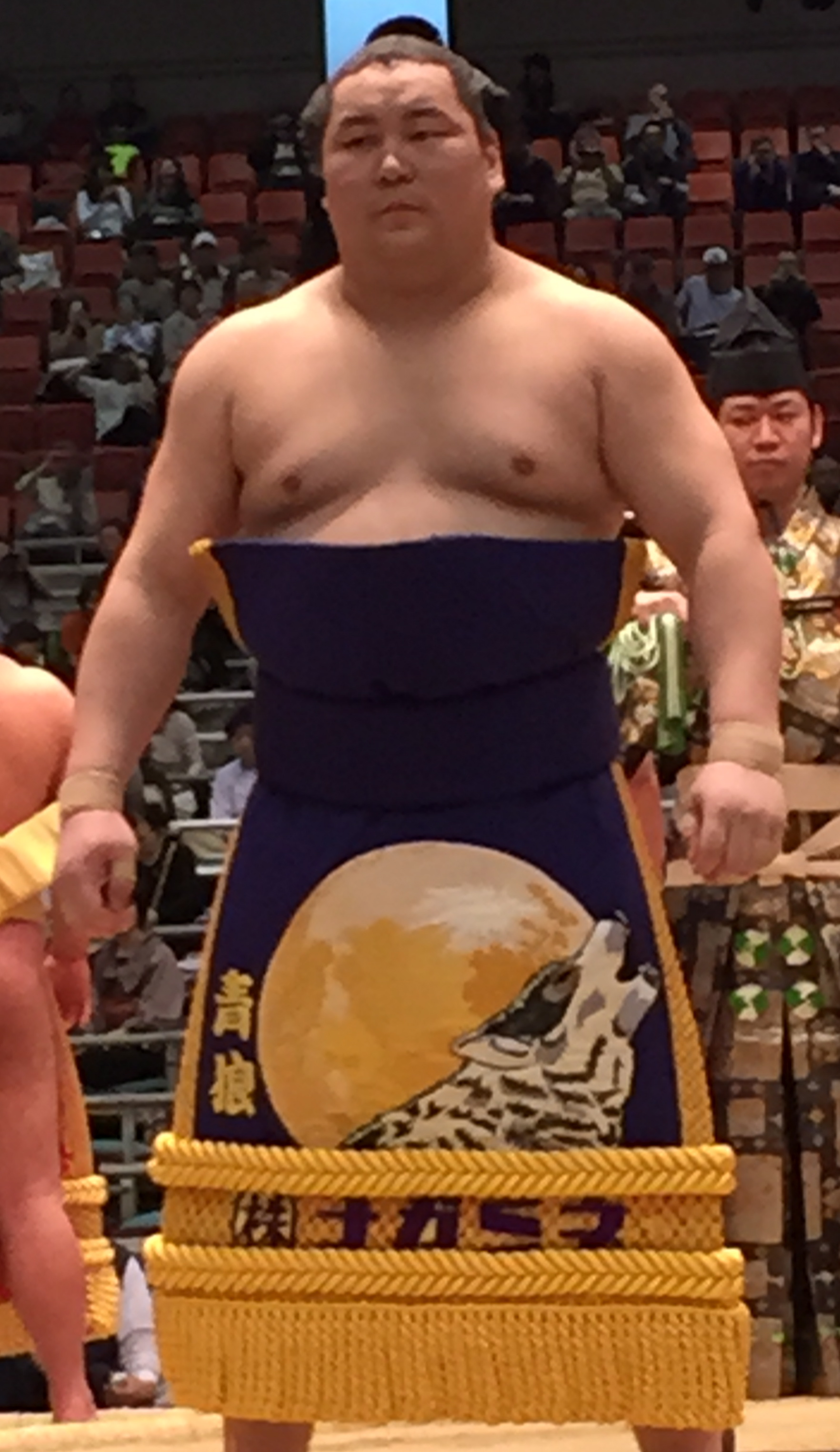 Taken at Osaka tournament 2015